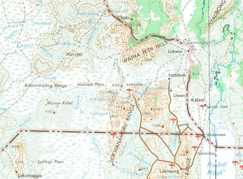 US army map service map, 1978, Ilemi triangle between Sudan, Ethiopia & Kenya